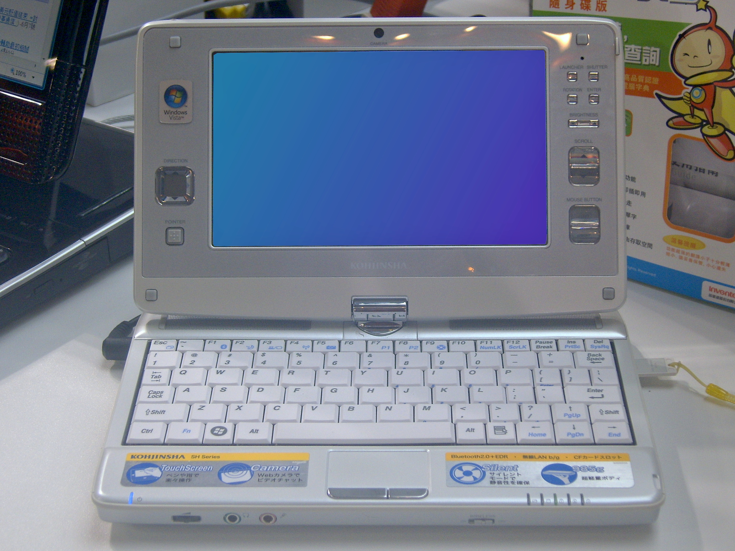 2008 Computex: Kohjinsha SH8WP12.